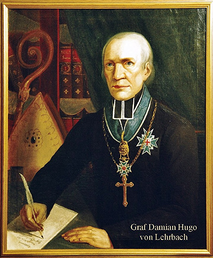 Damian Hugo Philipp von Lehrbach (1738-1815), Reichsgraf, Jesuit, Freisinger Domherr und Wohltäter der kath. Kirche in Speyer und Mainz